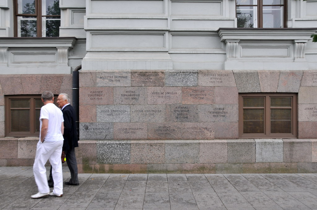 The Museum of Genocide Victims.